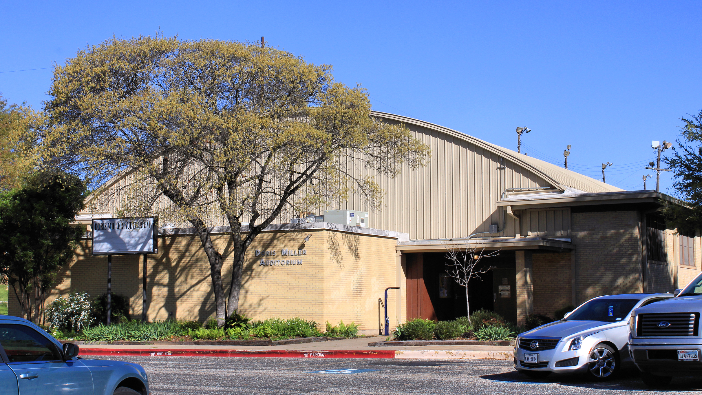 The Doris Miller Auditorium in Rosewood Park, Austin, Texas, United States was built in 1944.